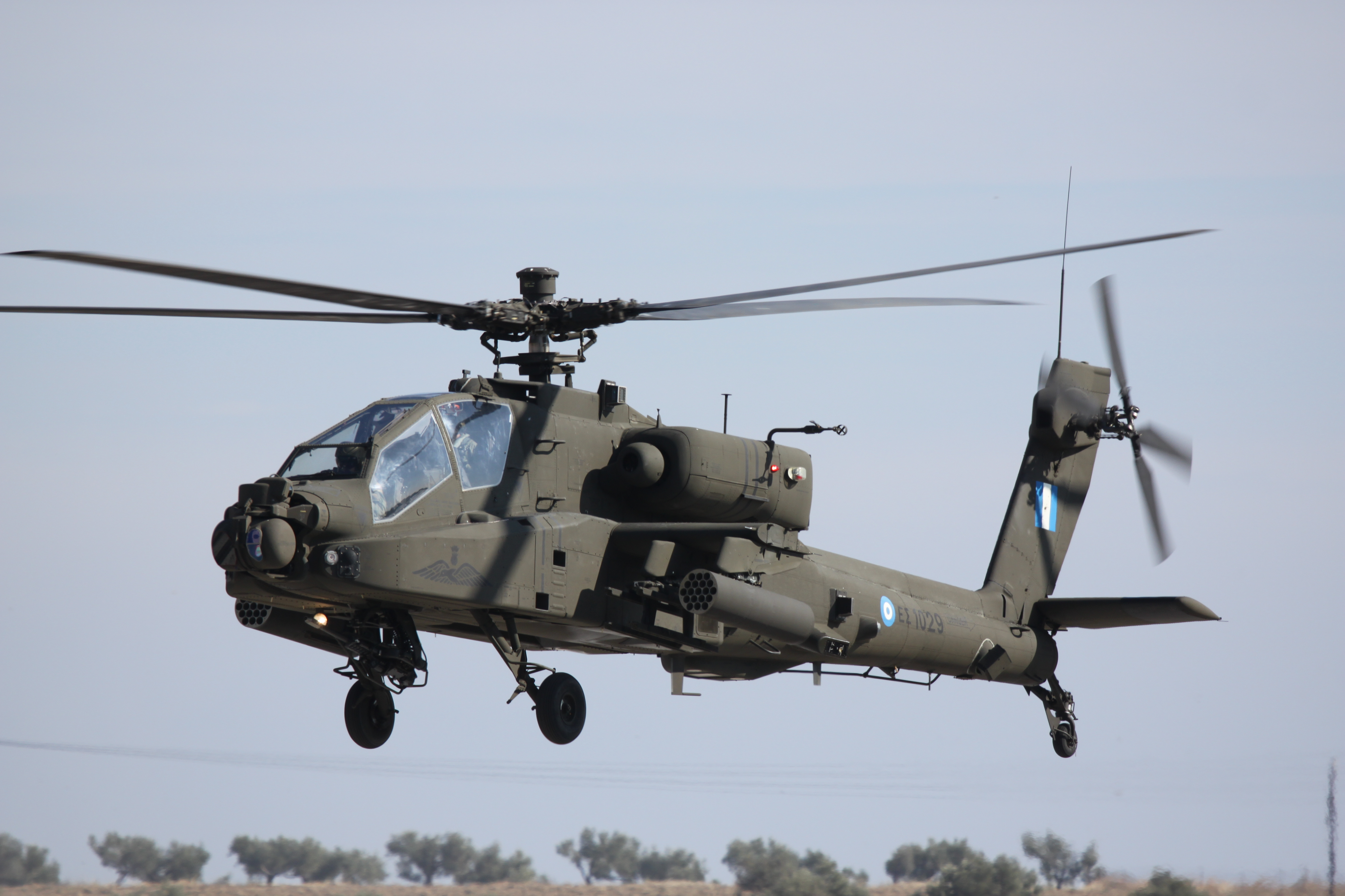 Two AH-64DHAs put on a very spirited display for the crowd